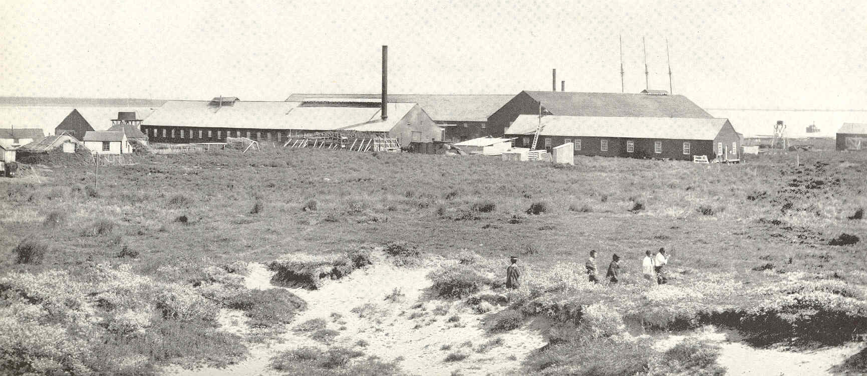 Canning Plant of Point Roberts Packing Company (A.P.A.), Koggiung, Kvichak Bay. View from sand dune to southwest Subject: Canneries--Alaska, Point Roberts Packing Company (Koggiung, Alaska), Koggiung (Alaska) Geographic Subject: United States--Alaska--Koggiung Tag: Commercial Fisheries